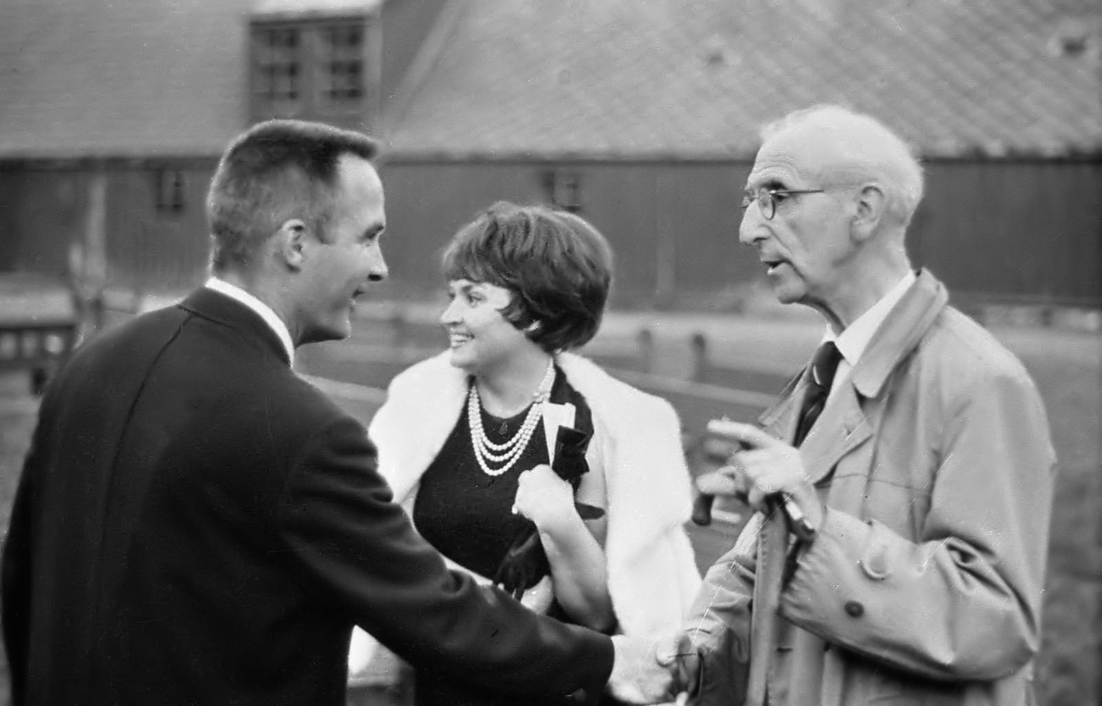 Norwegian achitect and archeologist Gerhard Fisher (at the right). Picture taken in the archbishop's courtyard. The lady in the middle is Rita Streich.